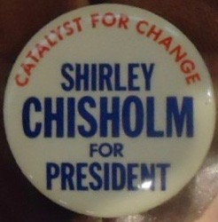 Memorial service for Capitola Dickerson (1913-2012) at St. John's church in Summit, New Jersey, on September 22, 2012 (correct date). Buttons saying "We Shall Overcome", "Shirley Chisholm for President", and "One Man One Vote SNCC"C